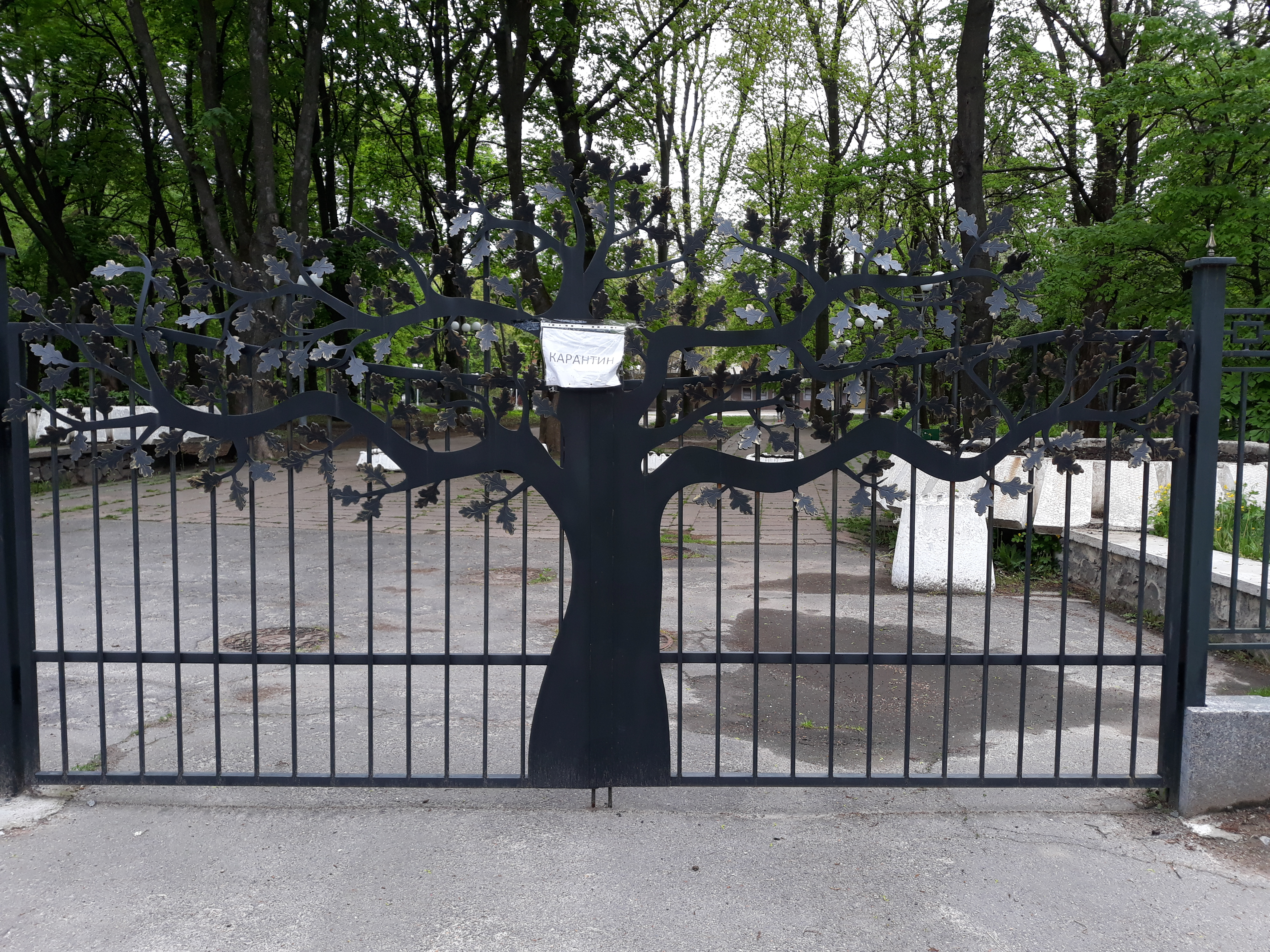 Vinnytsia City Park is closed for quarantine during the COVID-19 pandemic